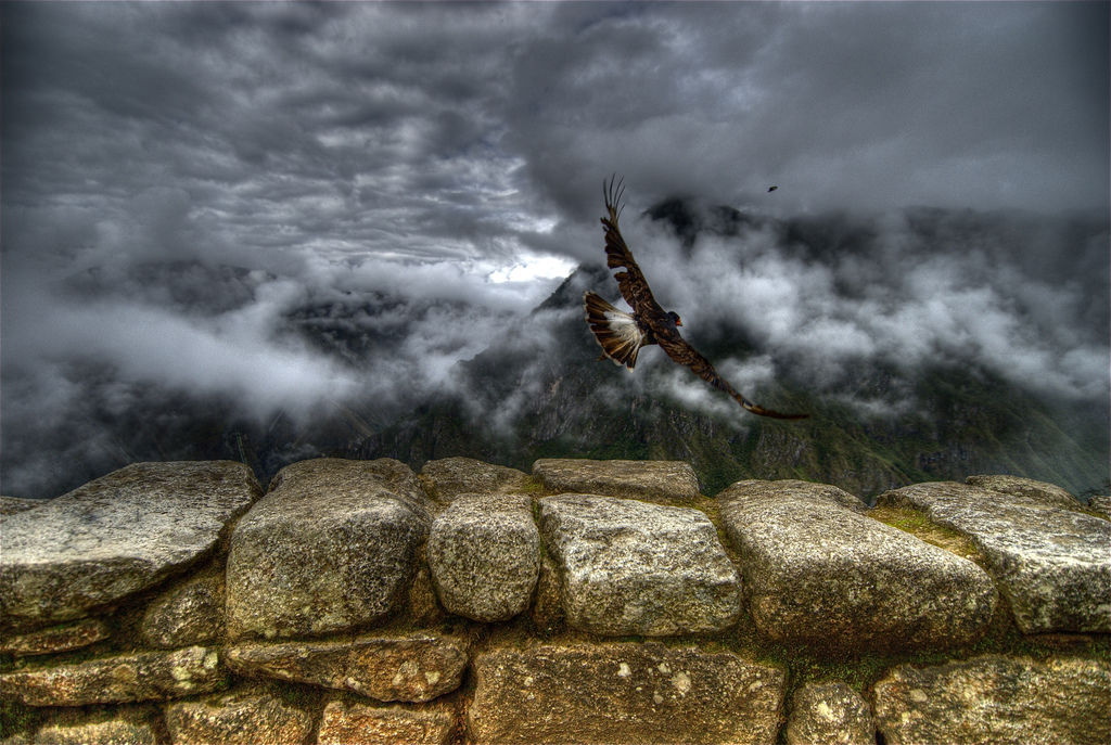 A Mountain Caracara (Phalcoboenus megalopterus) taking off at Machu Picchu, Peru. October 2007.